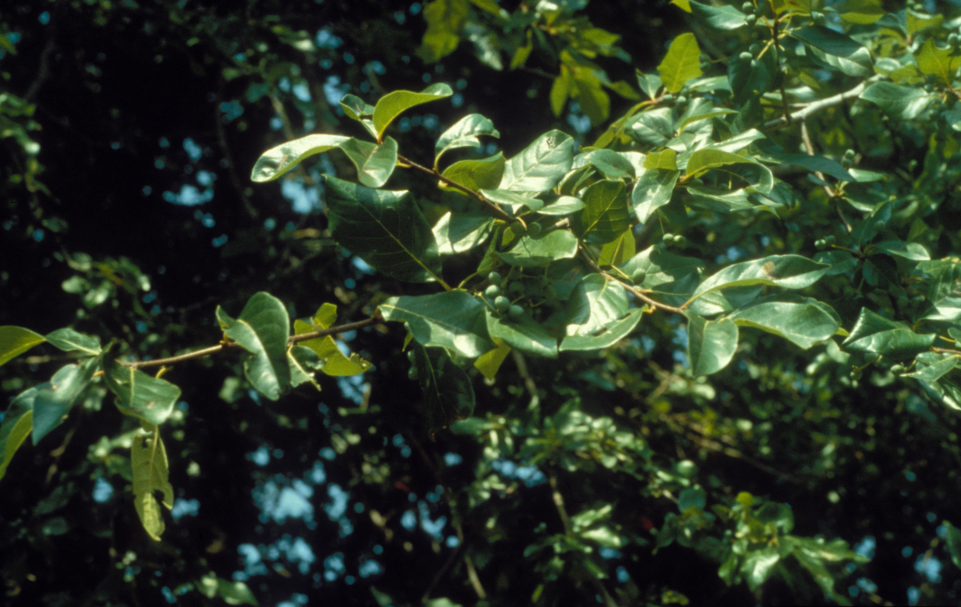 Nyssa sylvatica foliage and immature fruit.